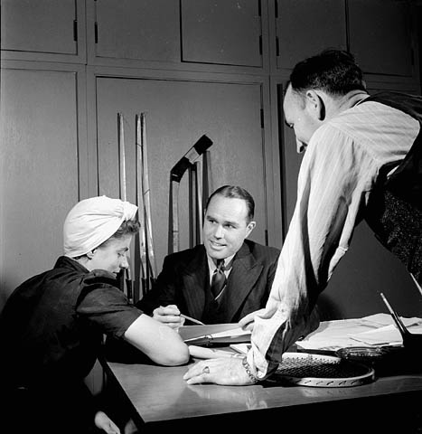 Left to right: Betty Pettigrew of Meadow Lake, Sask.; Gordon Bryson, now director of the Employees' Athletic and Recreation Association; Ab. Grant, president of the Recreational Association.